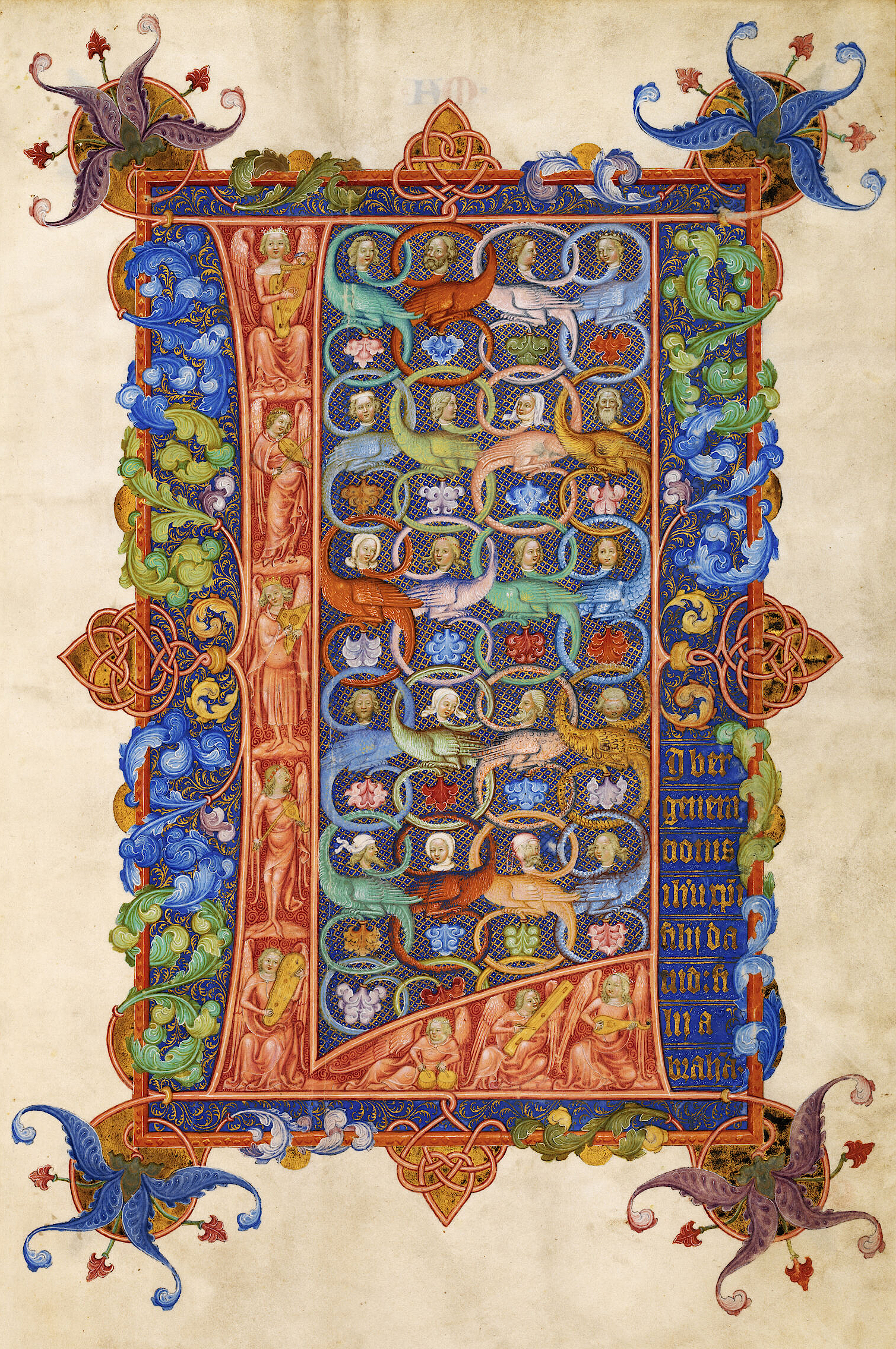 Initial L from Gospel book of Jan of Opava from 1368. Iniciála L z Evangeliáře Jana z Opavy z roku 1368.